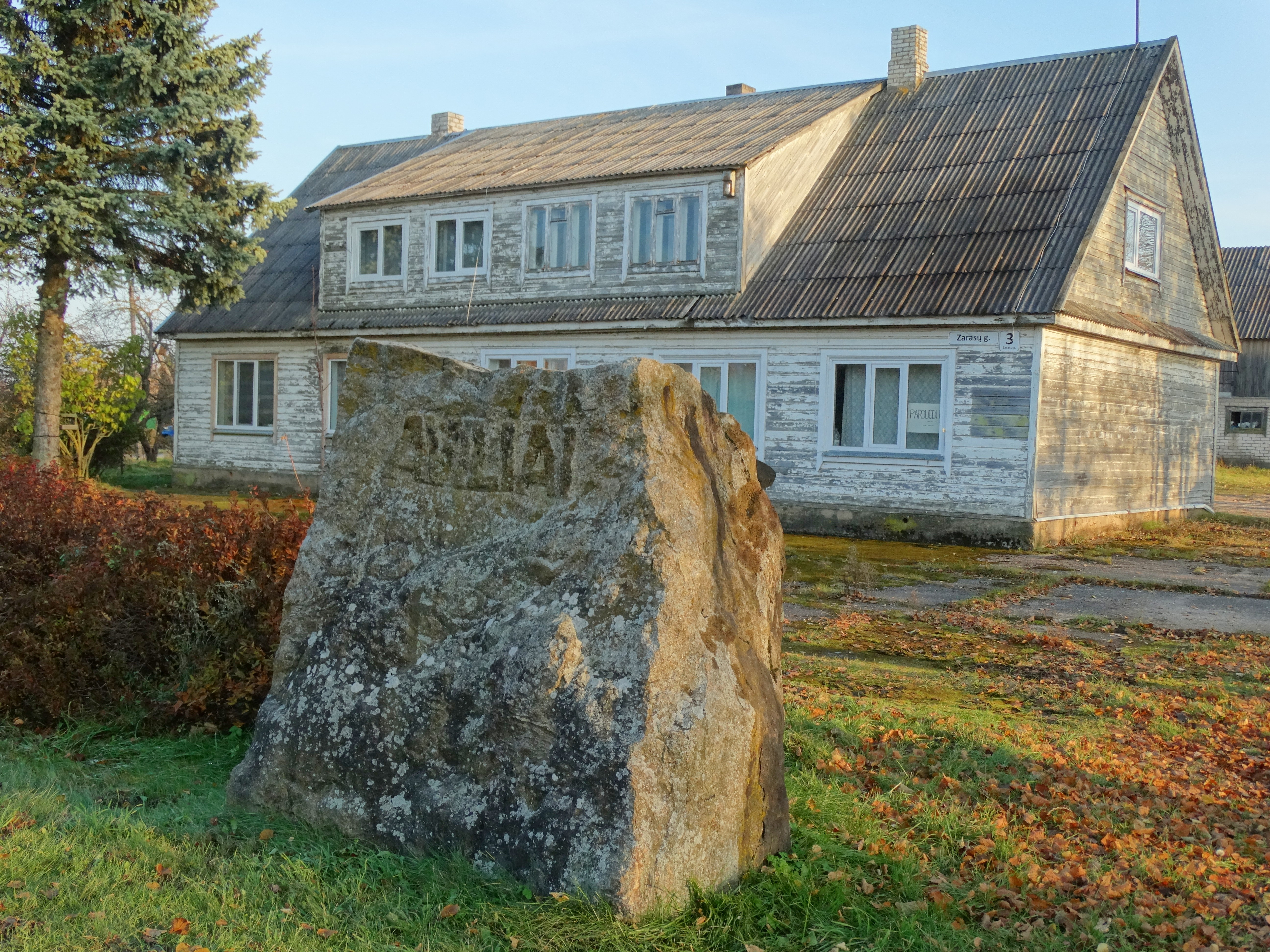 Aviliai, Zarasai district, Lithuania